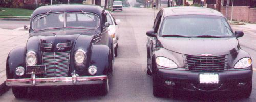 1937 Chrysler Airflow with 2002 Chrysler PT Cruiser parked next to her, photograph date is estimated to be 2001.